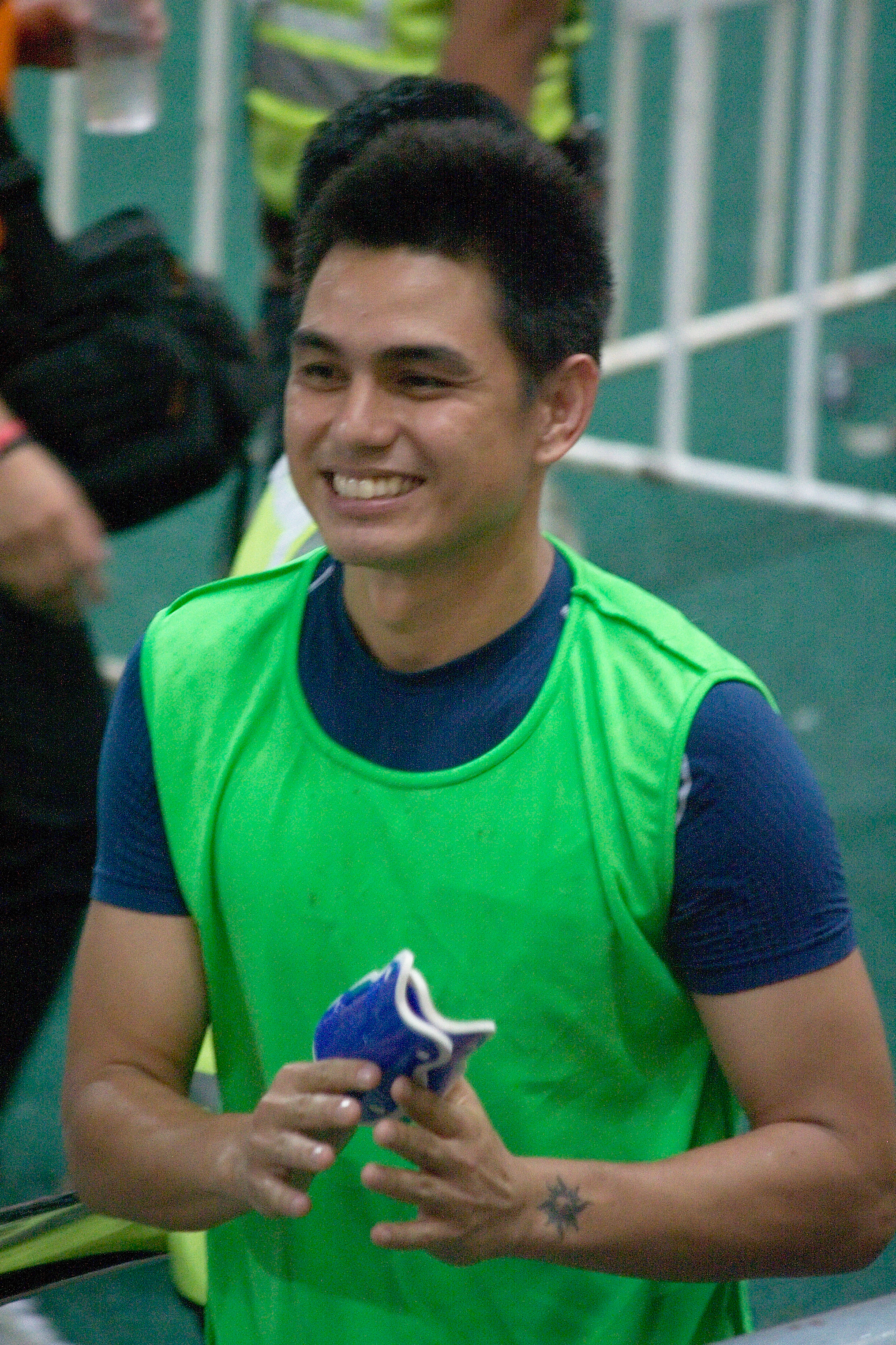 Thailand's Nattaporn Phanrit after the World Cup 2014 third round qualifying match against Oman at Rajamangala Stadium